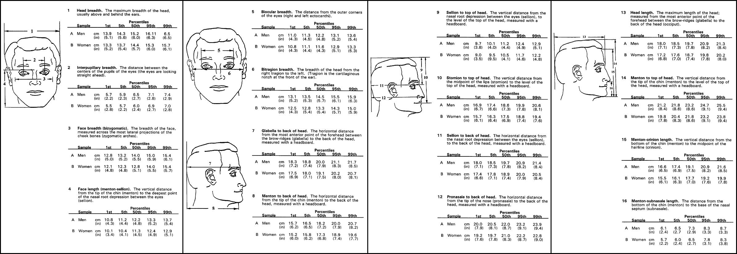 Static adult human physical characteristics of the adult head, from pages 72-75 of Poston, Alan. (April 2000) Department of Defense Human Factors Engineering Technical Advisory Group (DOD HFE TAG).